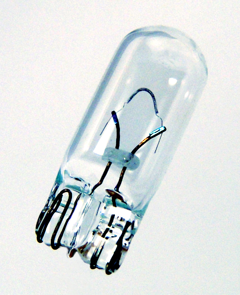 Wrench-socket vehicle bulb, 12 Volts, 5 Watts. Also commonly knows as W5W. Make: Philips